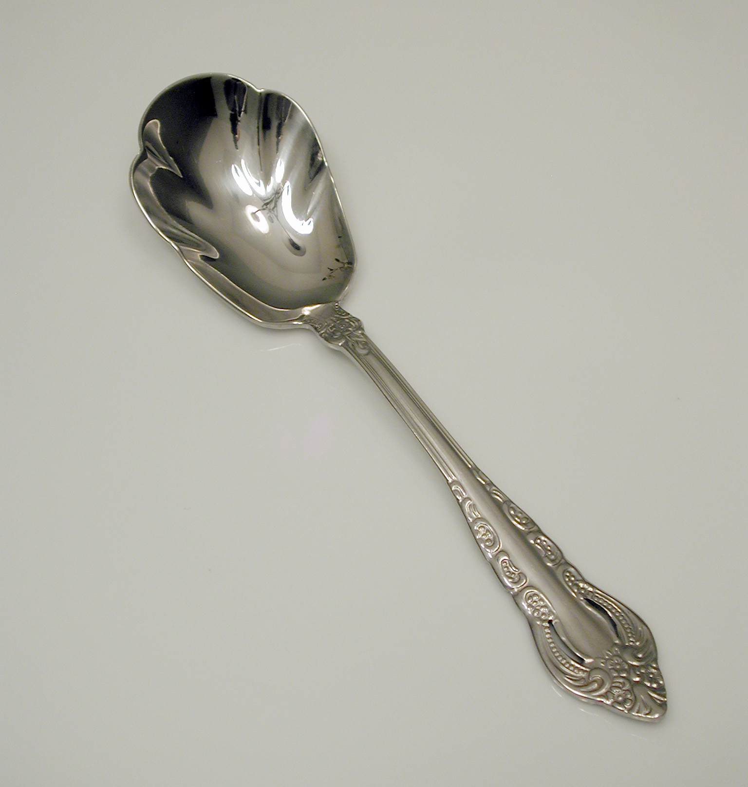 Sugar spoon on white plate.